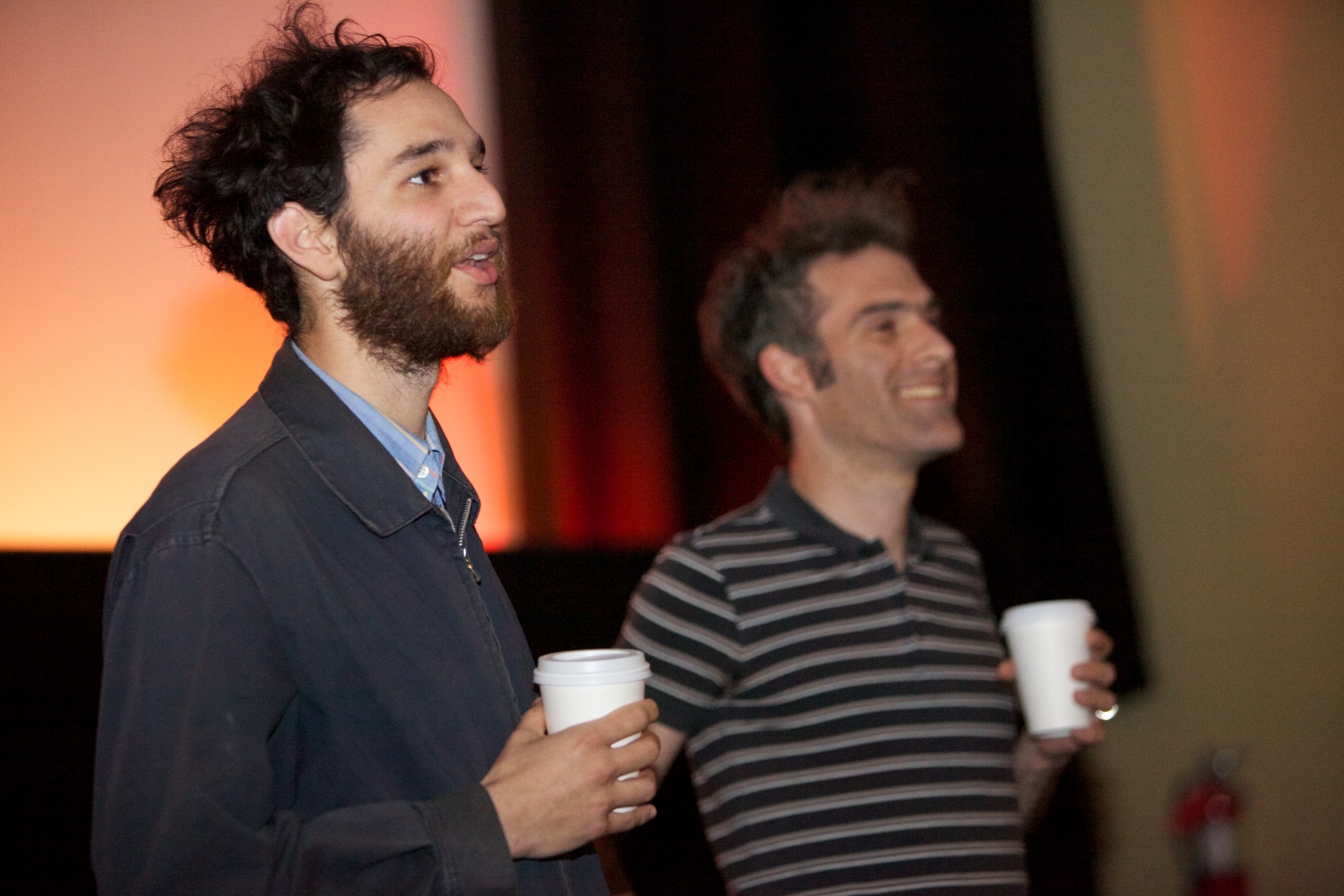 Director Josh Safdie (left) and actor Ronald Bronstein - 2010